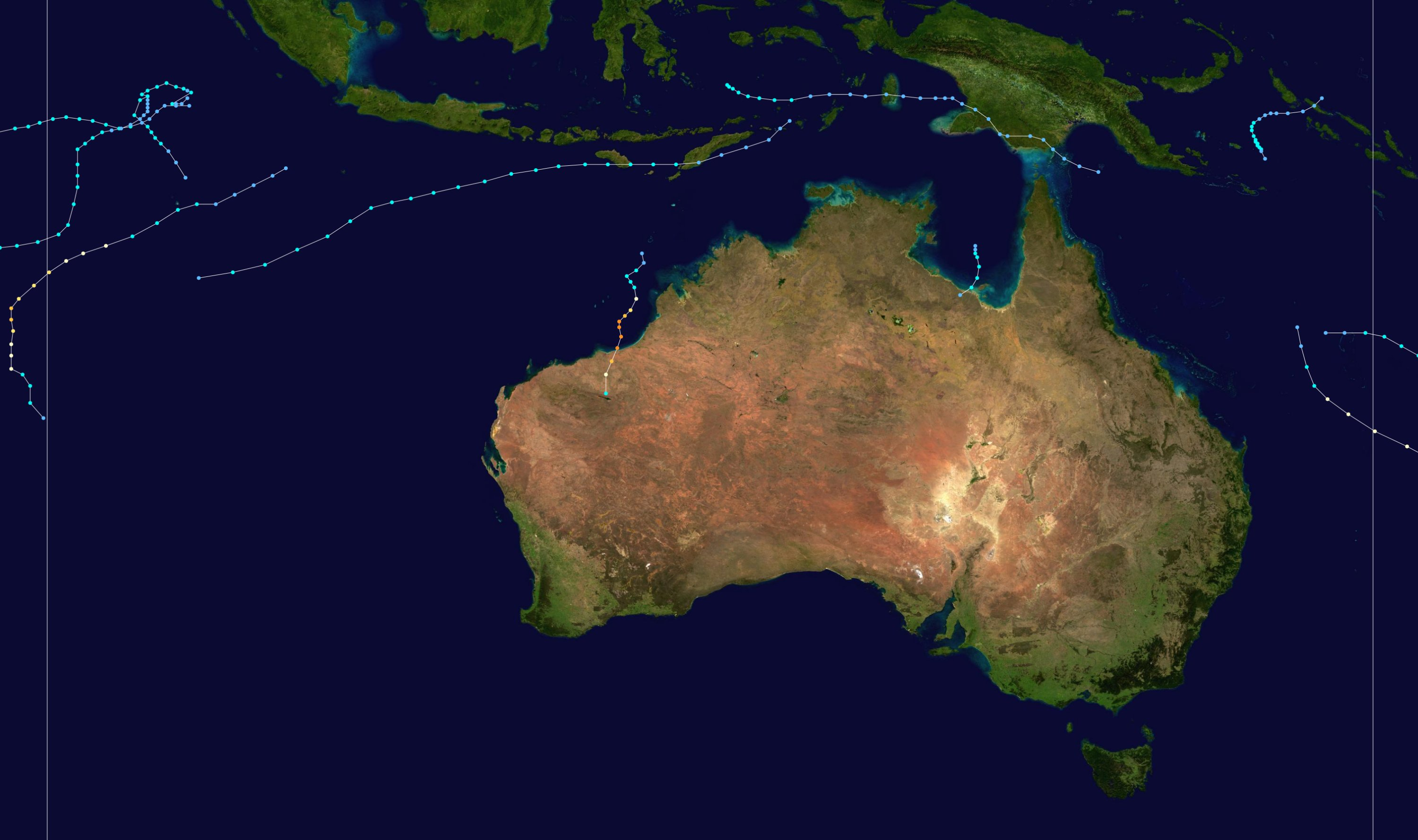 This map shows the tracks of all tropical cyclones in the 2001-02 Australian region cyclone season. The points show the location of each storm at 6-hour intervals. The colour represents the storm's maximum sustained wind speeds as classified in the Saffir-Simpson Hurricane Scale (see below), and the shape of the data points represent the type of the storm. Saffir–Simpson hurricane wind scale Tropical depression≤38 mph≤62 km/h Category 3111–129 mph178–208 km/h Tropical storm39–73 mph63–118 km/h Category 4130–156 mph209–251 km/h Category 174–95 mph119–153 km/h Category 5≥157 mph≥252 km/h Category 296–110 mph154–177 km/h Unknown Storm typeTropical cycloneSubtropical cycloneExtratropical cyclone / Remnant low / Tropical disturbance